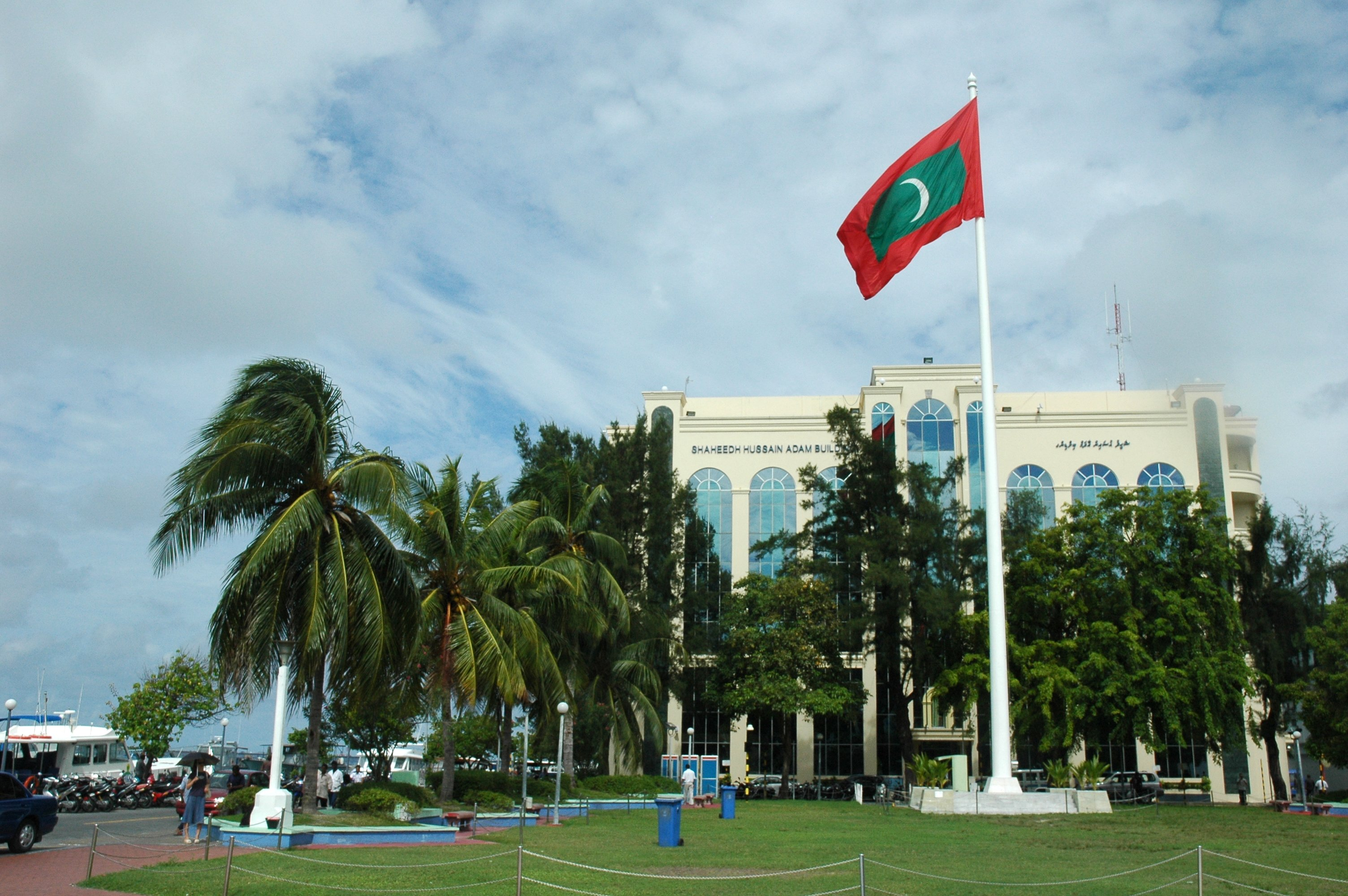 Jumhooree Maidan (Independence Square). Male's central square with the giant flagpole and the Shaheed Hussain Adam Building in the background, Male.